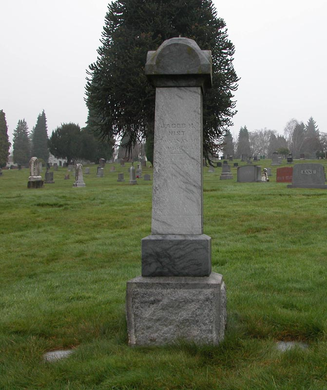 Calvary Cemetery (Seattle). Grave of Jacob Nist, founder of Queen City Manufacturing Company, now the Seattle-Tacoma Box Company.